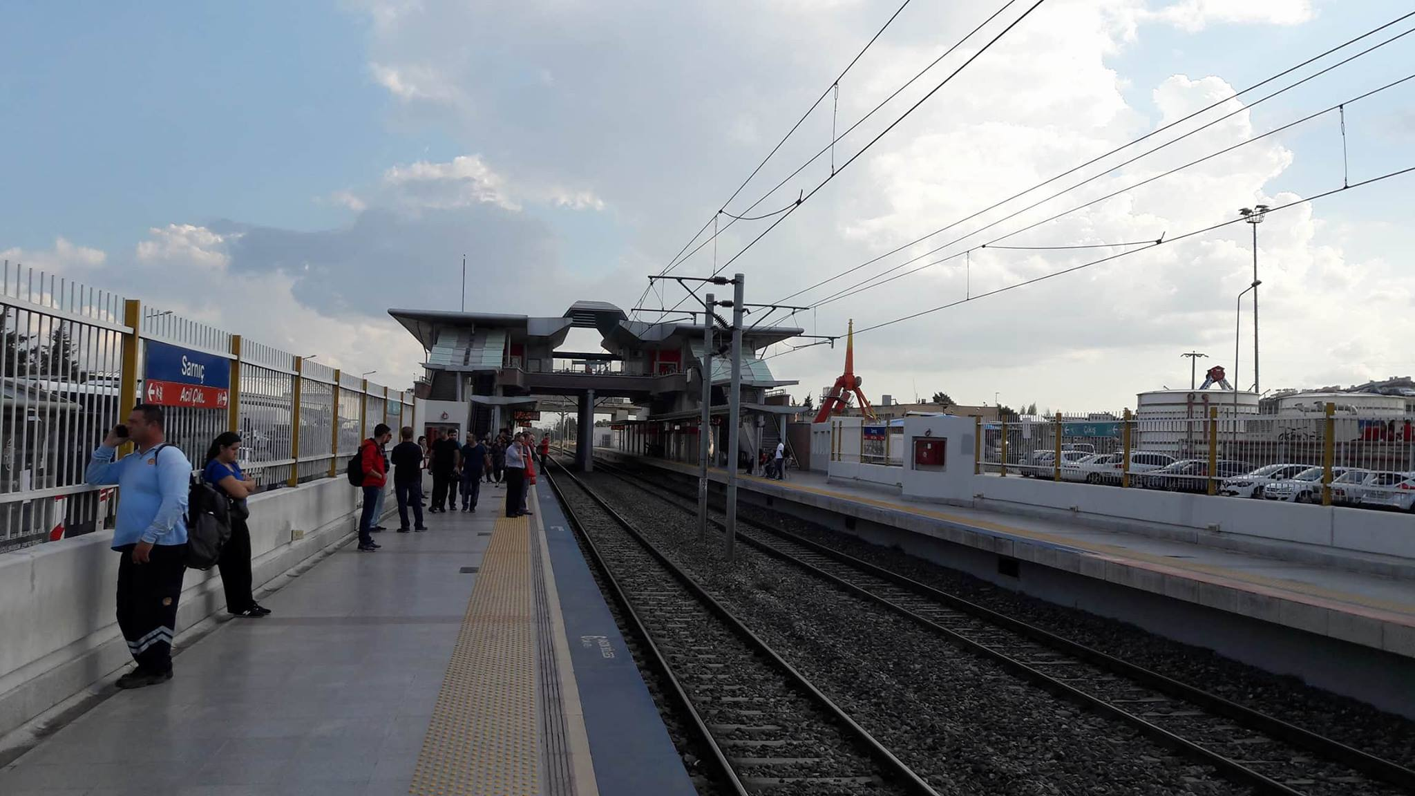 Sarnic railway station, looking south.